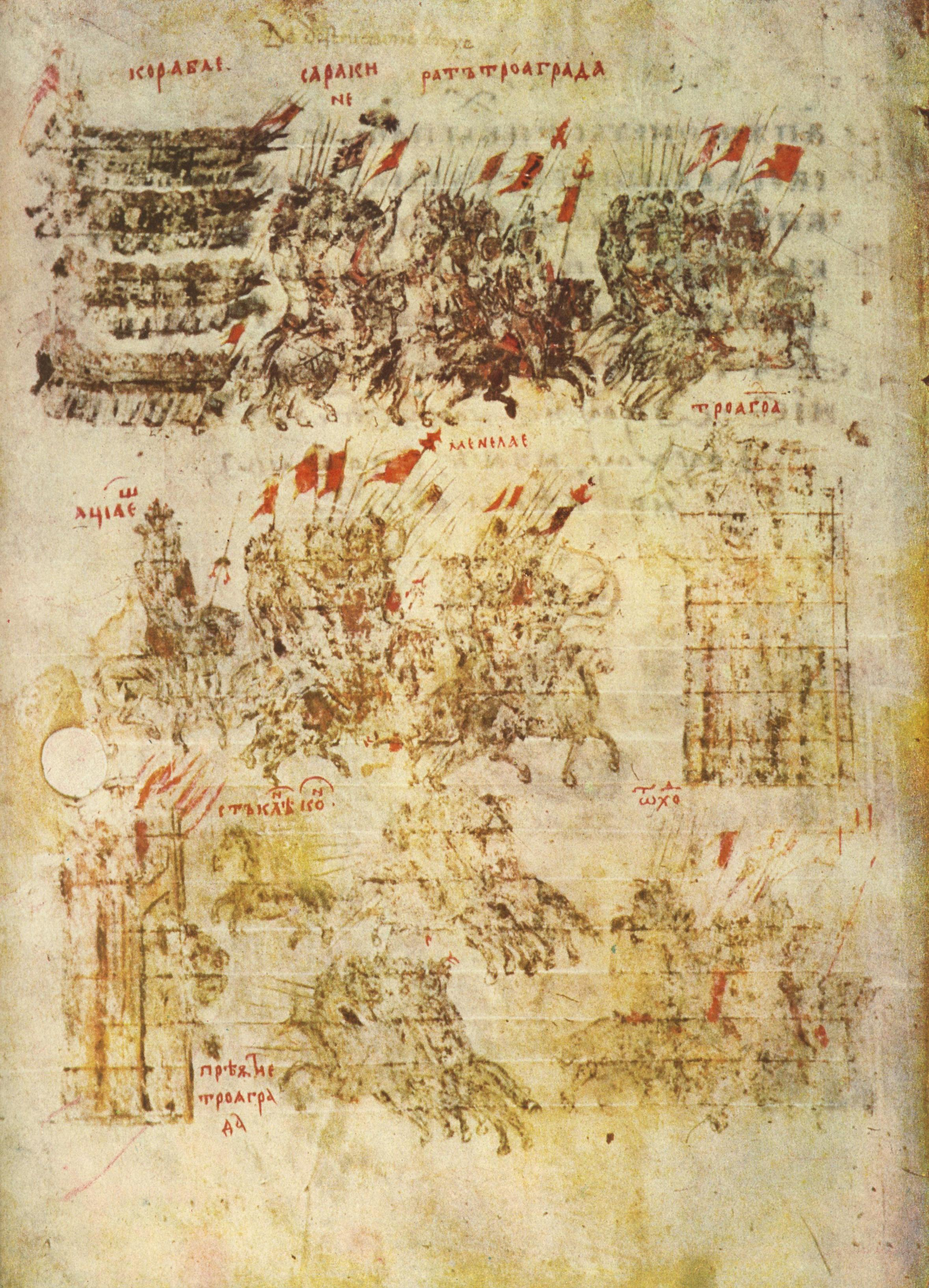 Miniature 20 from the Constantine Manasses Chronicle, 14 century: Battles near Troy, conquest and destruction of the city.